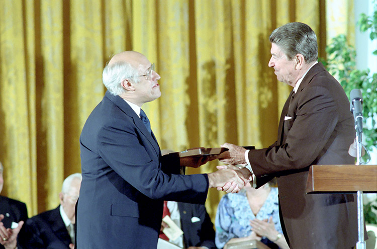 6/23/1987 President Reagan hands out an award to Mstislav Rostropovich in the East Room during a Medal of Freedom Luncheon